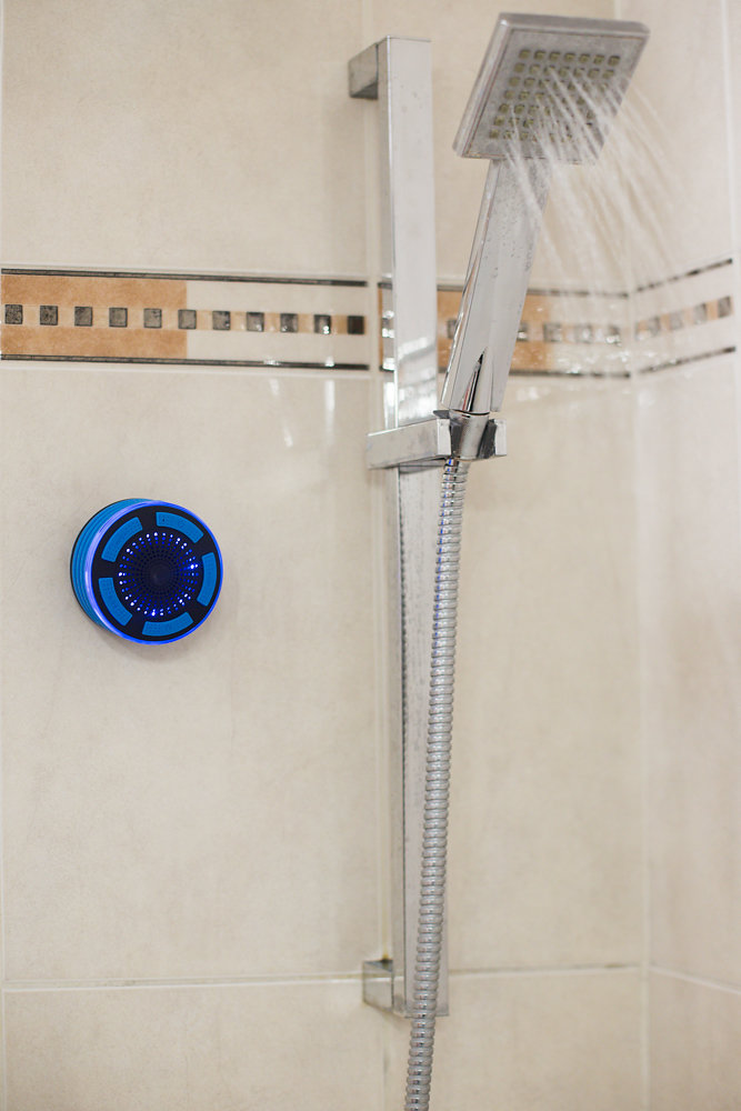 A blue shower speaker fixed to the wall of a shower with running water